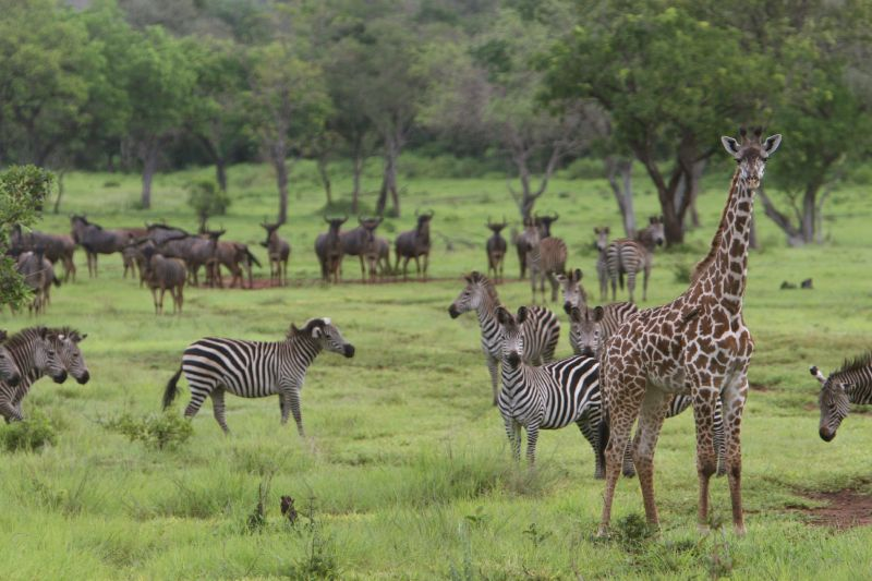 Animals in Selous Game Reserve, Tanzania